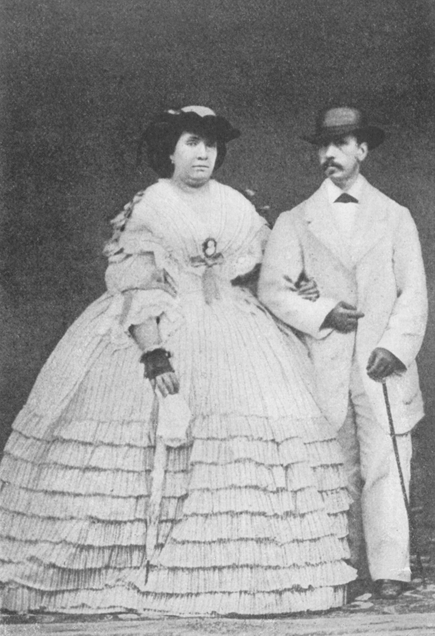 Full-length black-and-white portrait of Queen Isabella II of Spain and the King Consort.